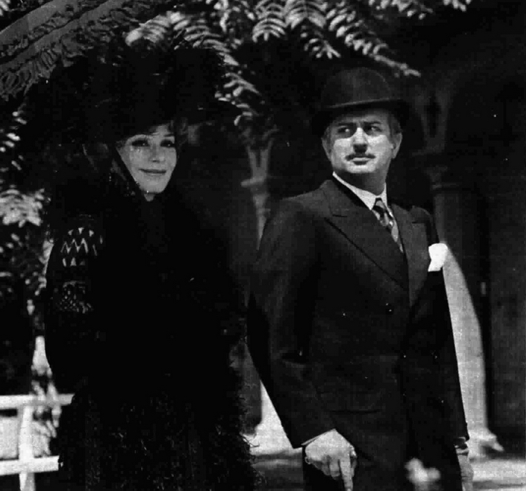 Ingrid Thulin and Alberto Lionello shooting the Italian TV-movie Puccini in Torre del Lago